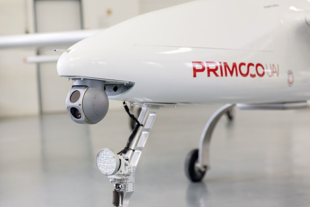 Primoco UAV